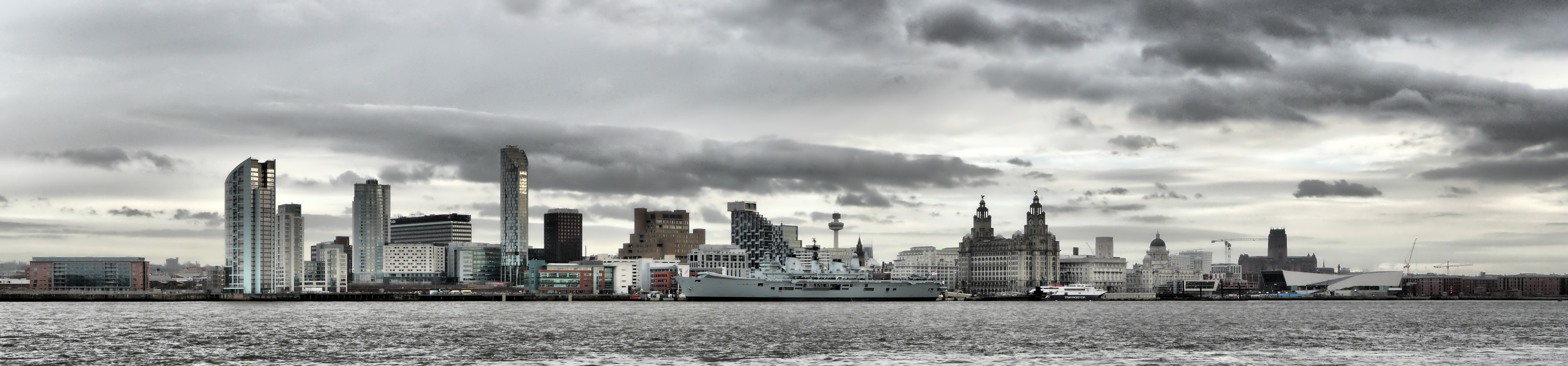 Liverpool Skyline with HMS Ark Royal docked at cruise terminal